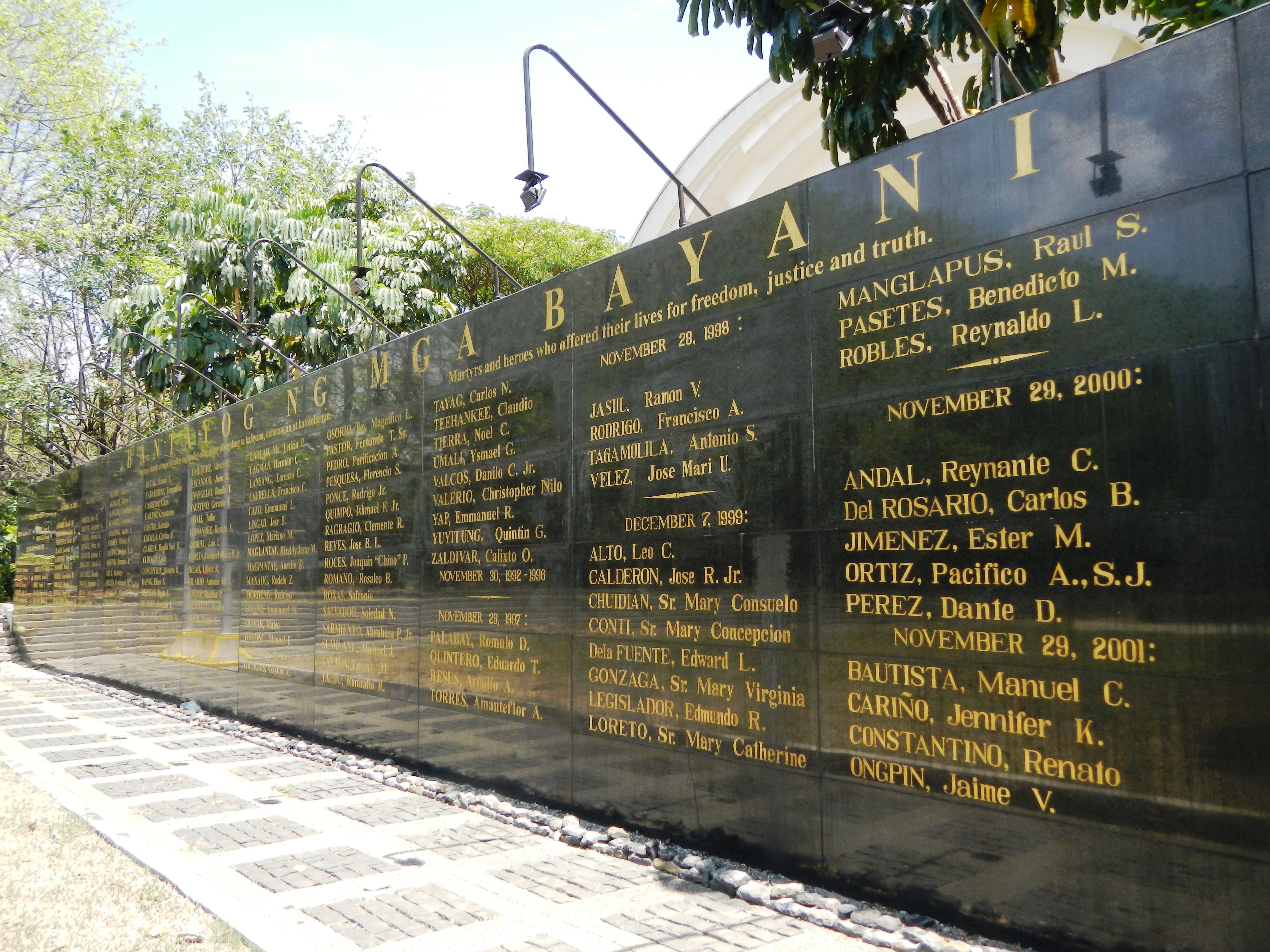 Bantayog ng mga Bayani Museum Bantayog ng mga Bayani Bantayog ng mga Bayani (Heroes Monument) Park